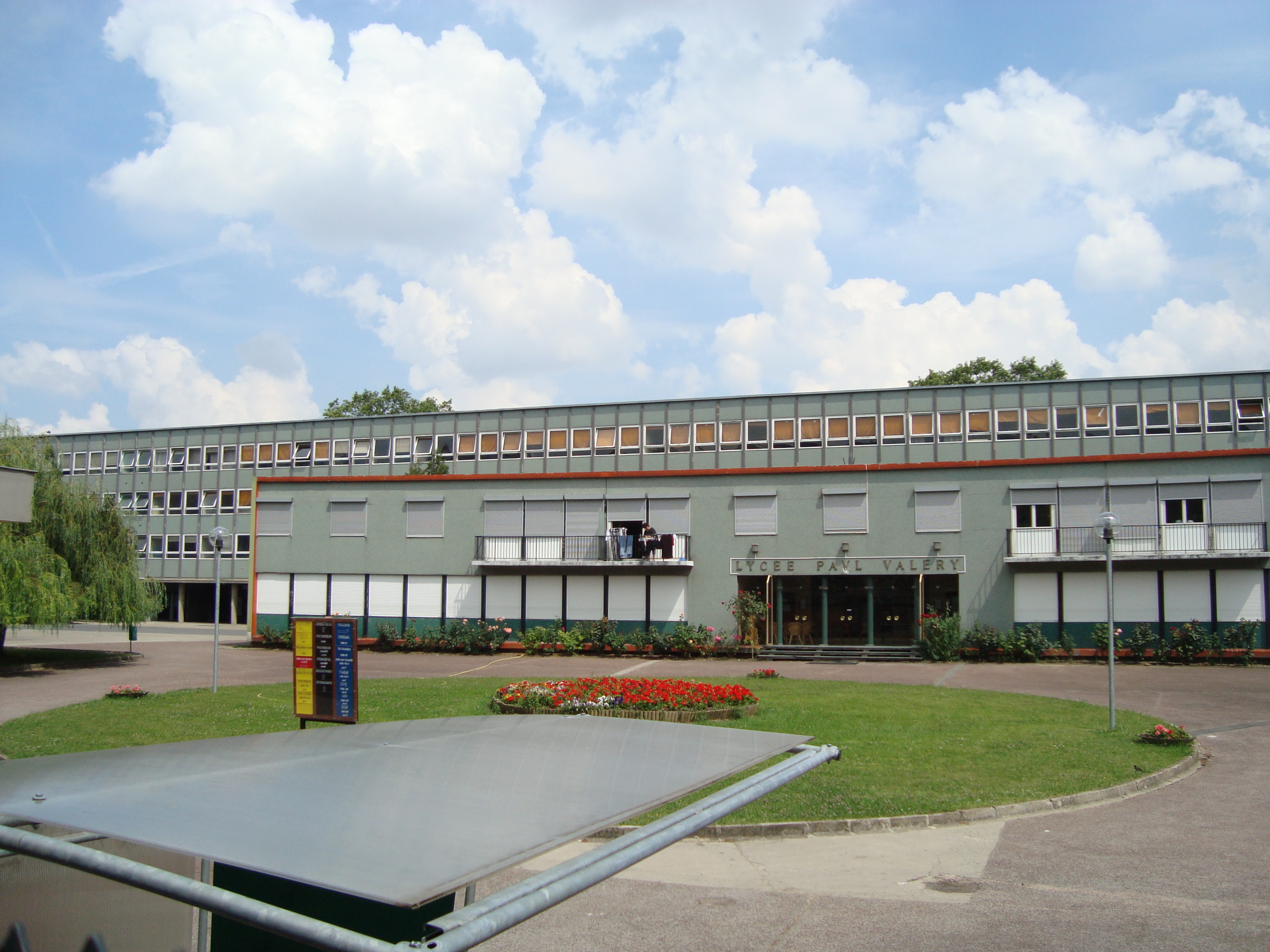 Lycée Paul-Valery in Paris located at Boulevard Soult in the 12th arrondissement